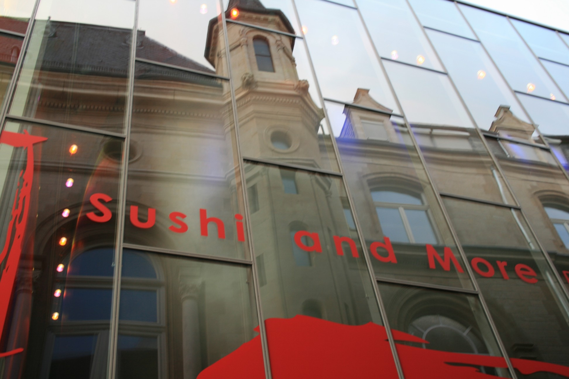 The Cercle Municipal reflecting on the windows of the new redesign building of the médiatheque